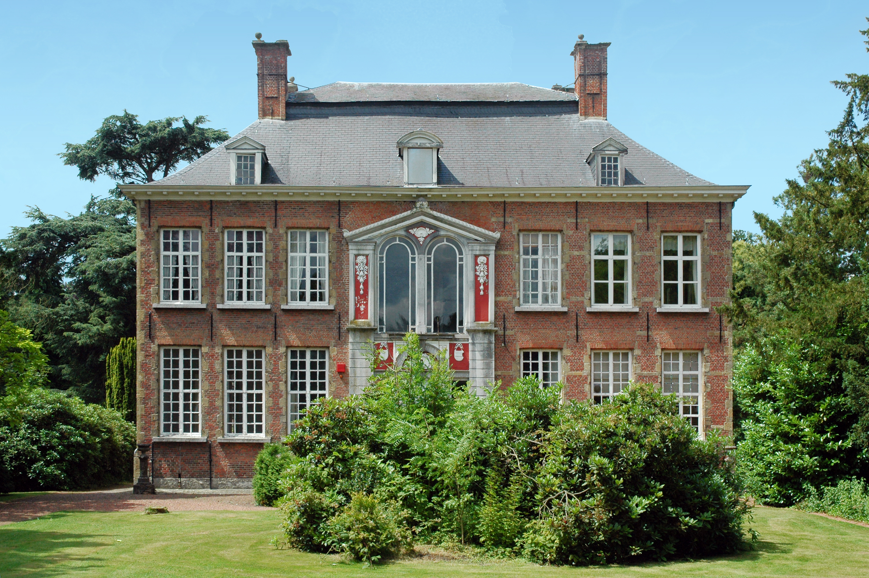 Eastern facade of the Kasteel van Berlare (Castle of Berlare) in July 2012.